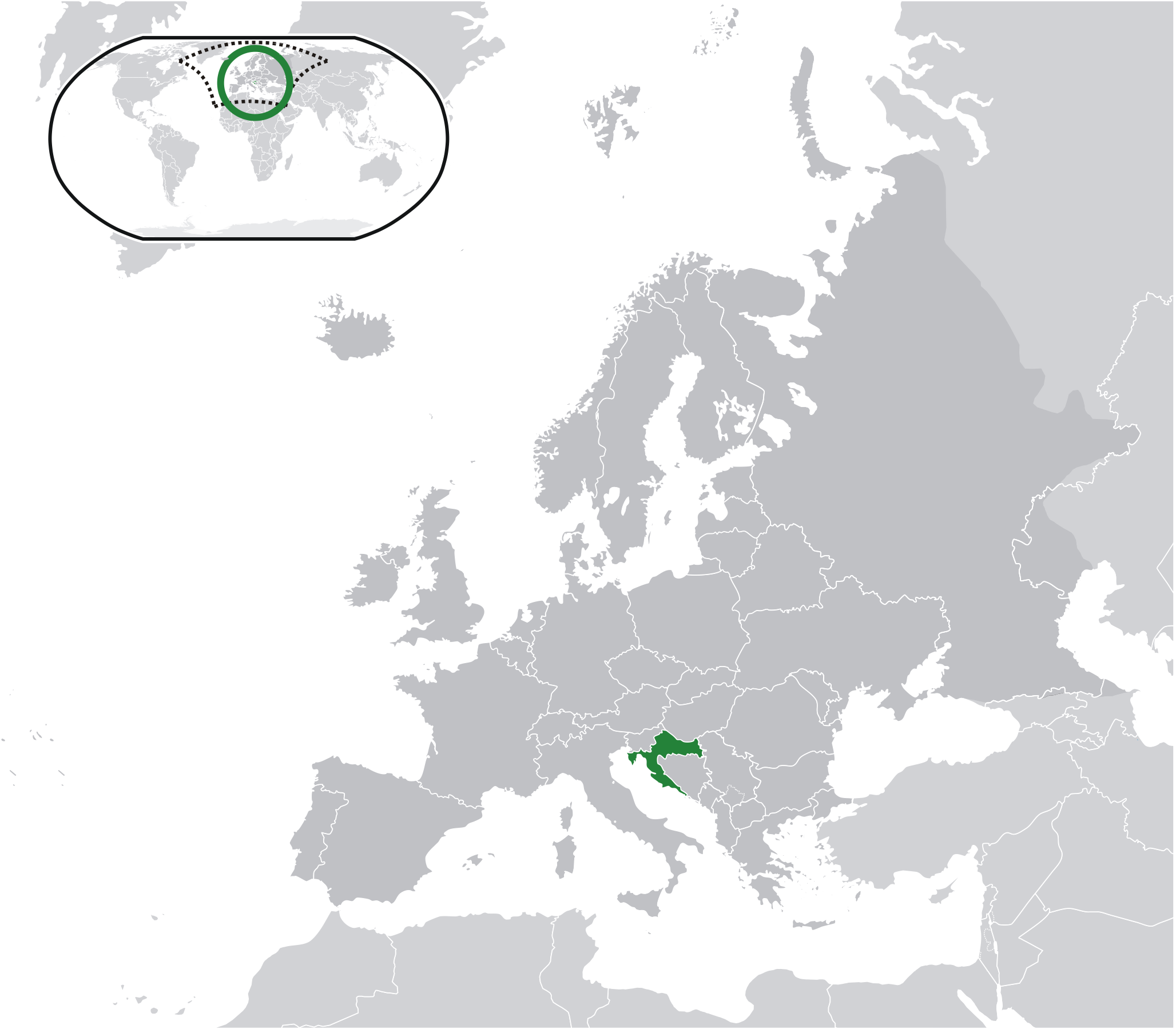 Croatia (green): inspired by and consistent with general country locator maps by User:Vardion, et al